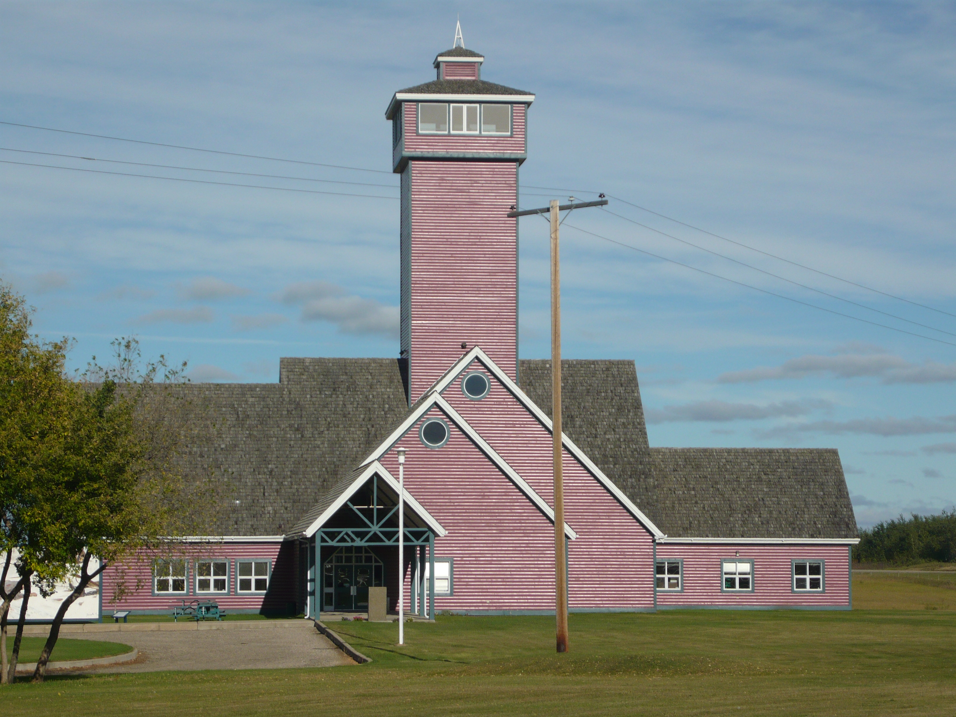 Duck Lake Regional Interpretive Centre, Duck Lake, Saskatchewan, Canada. Located at the intersection of Highway 11 and Highway 212 (Anderson Avenue).